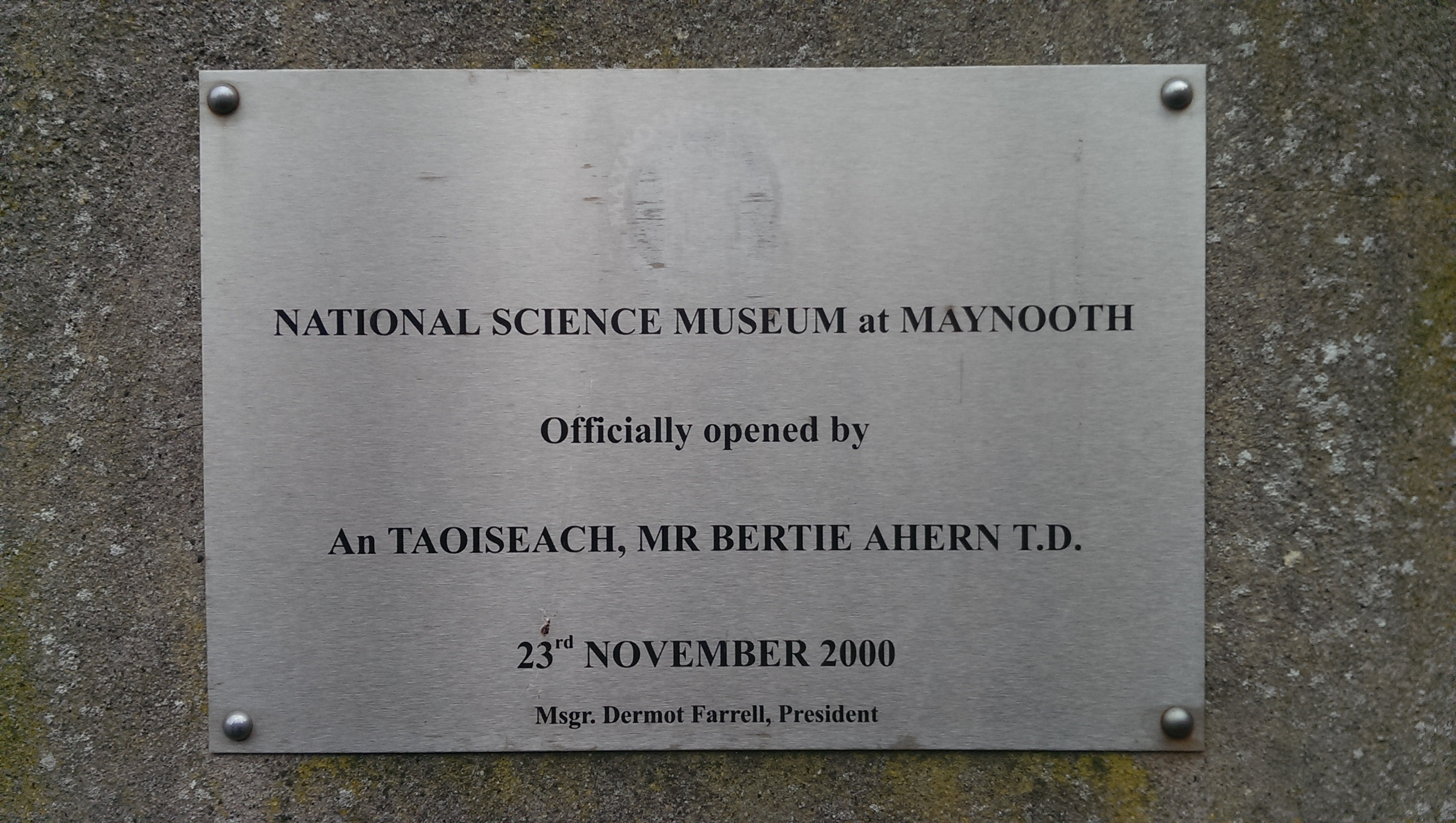 Title plaque for the National Science Museum in Maynooth, Ireland